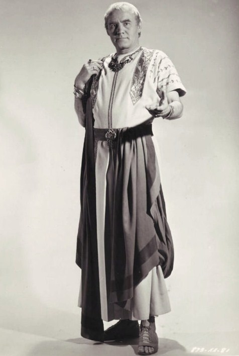 Torin Thatcher in The Robe (1953) - publicity still (original image cropped : see source)